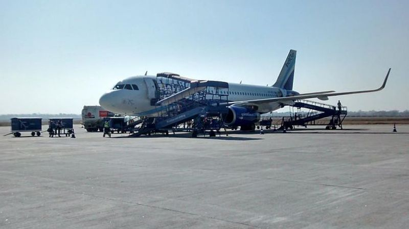 An Airbus A320-200 of IndiGo at Birsa Munda Airport, Ranchi